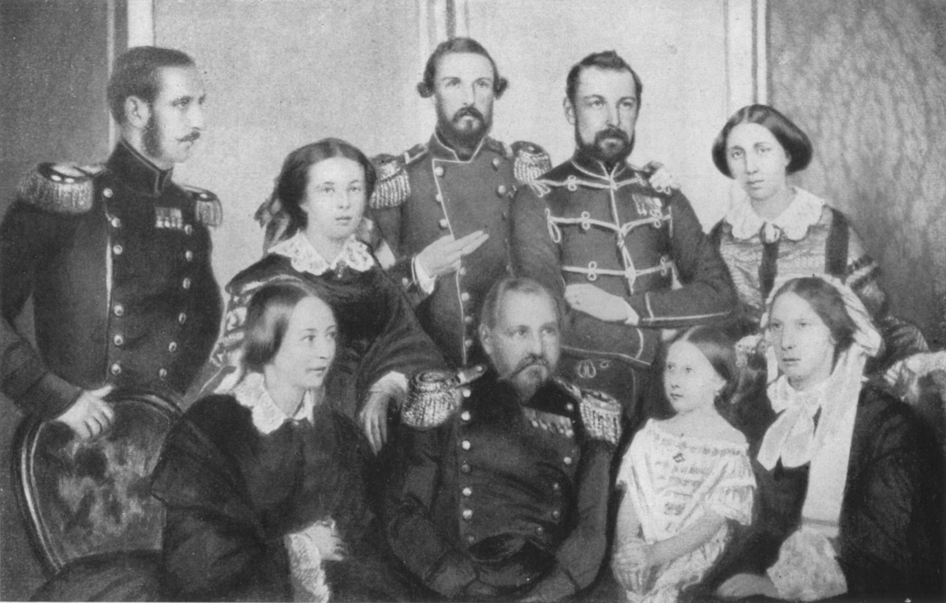 Royal house of Bernadotte in 1857. Standing, from left: prince August (1831-1873), duchess Sofia of Nassau (1836-1913), duke Oscar (1829-1907), crown prince Karl (1826-1872) and princess Eugénie (1830-1889). Sitting, from left: queen Josephine (1807-1876), king Oscar I (1799-1859), princess Louise (1851-1926) and crown princess Louise (1828-1871). The source claims this is a photograph